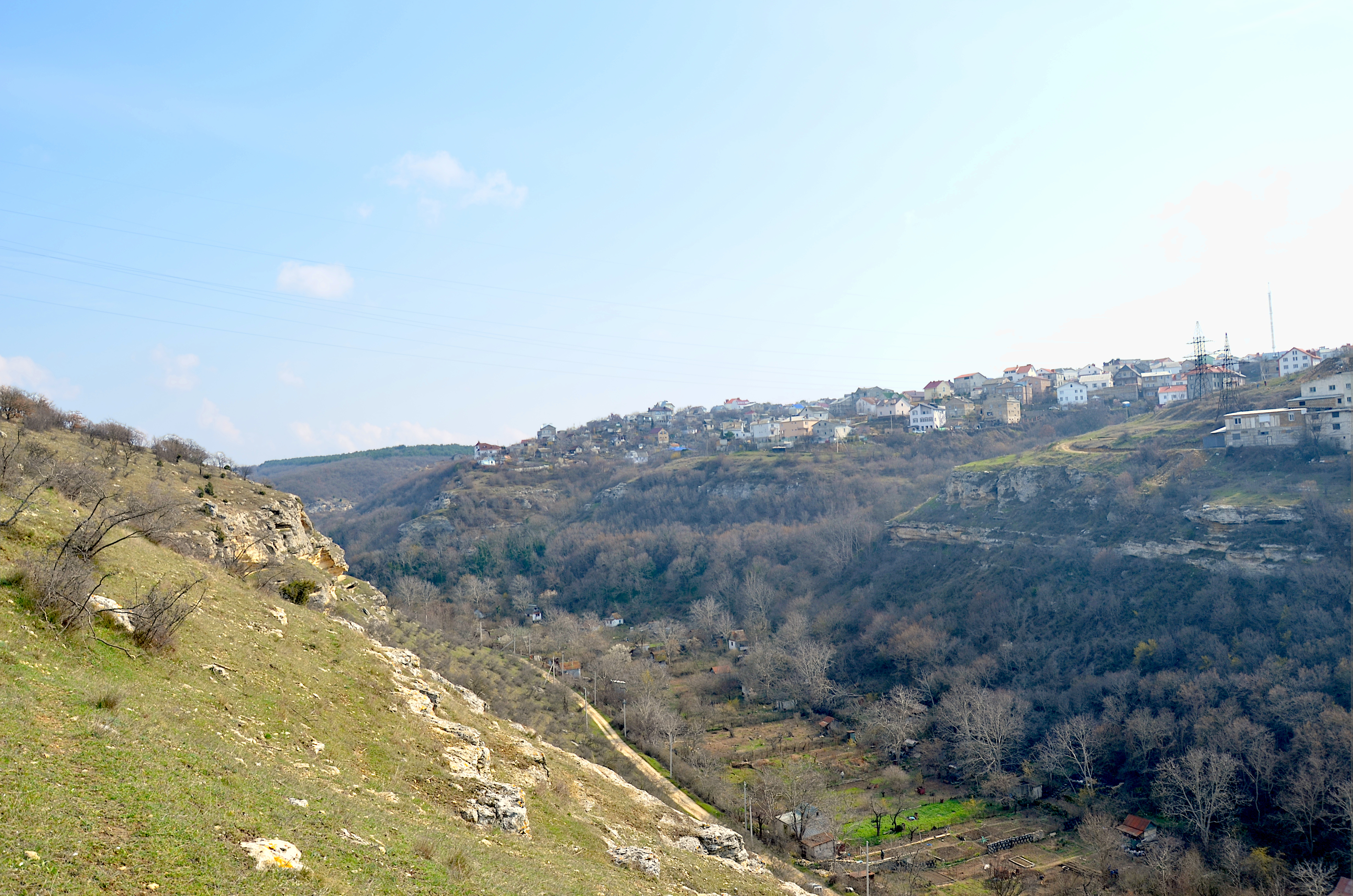 Kilen Gully